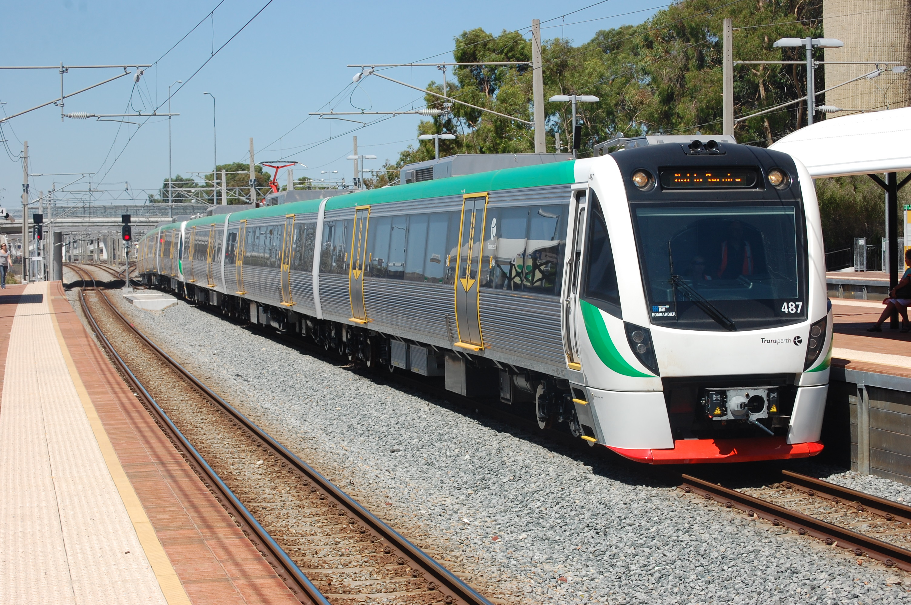 Transperth B-series train at McIver station